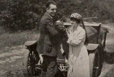 Still from the American comedy drama film Marriages Are Made (1918) with Edwin Stanley and Peggy Hyland, on page 35 of the October 26, 1918 Exhibitors Herald.